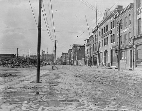 Image source: cropped from Image Z24.429, linked at [1]. Pre-1923. Lupo 07:33, 15 September 2005 (UTC). From the Maryland Historical Society web site